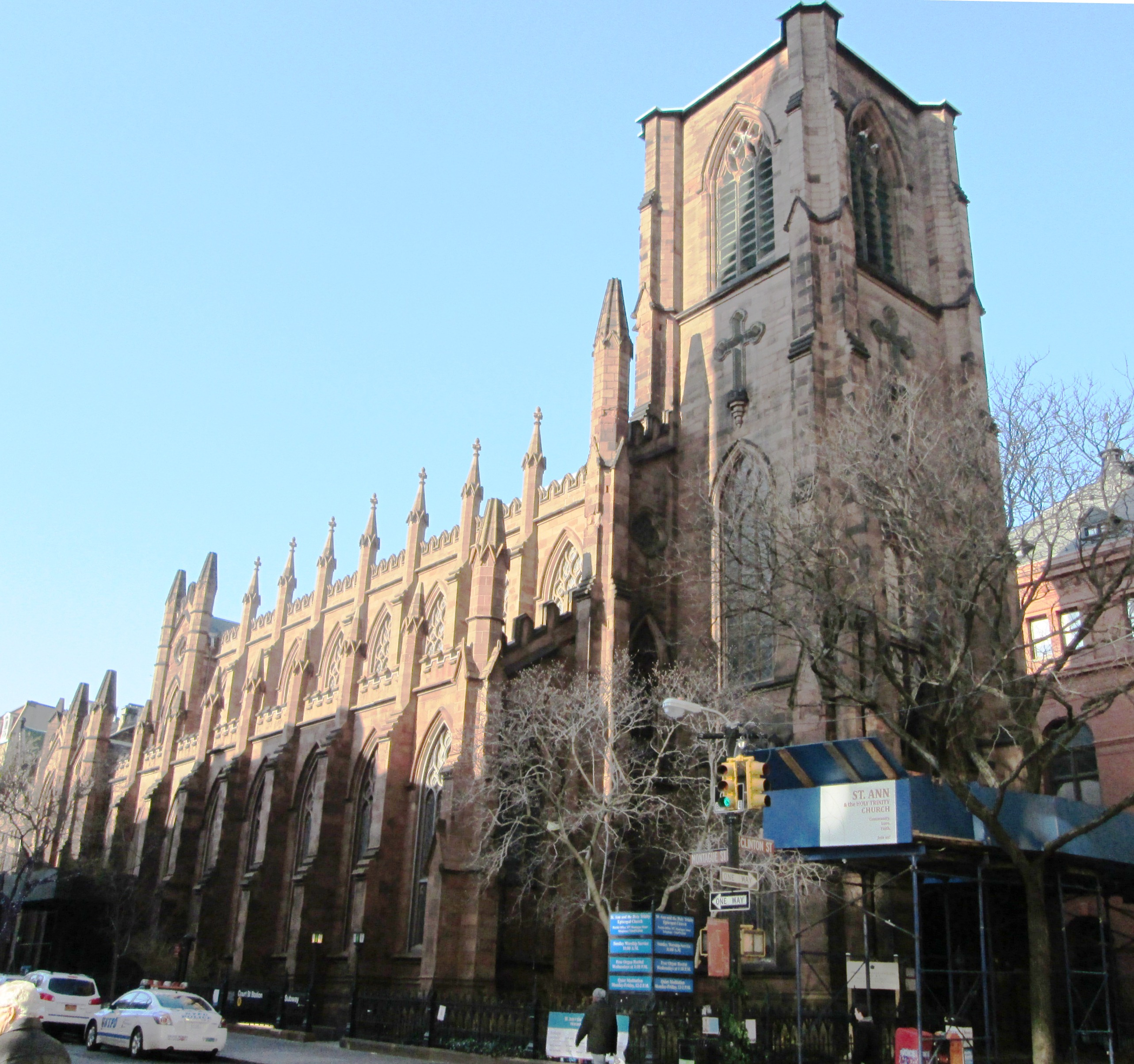 St. Ann's and the Holy Trinity Church at 157 Montague Street in the Brooklyn Heights neighborhood of Brooklyn, New York City was built in 1844-1847 as the Holy Trinity Protestant Church, designed by Minard Lafever. A spire by Patrick C. Keeley was added in 1866 and removed in 1905. The church's stained glass windows are by William Jay Bolton, and the reredos is by Frank Freman. Restoration of the church, whose brownstone facade has not aged well, have been undertaken by Mendel Mesik Cohen Waite from 1979 on. (Source: AIA Guide to NYC (5th ed.)) The church formerly used by the St. Ann's parish is now part of Packer Collegiate Institute.